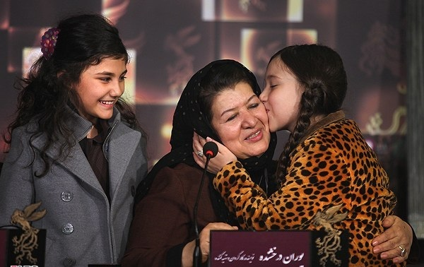 Pouran Derakhshandeh, Hush! Girls Don't Scream film screening and press conference (13911122025853121)